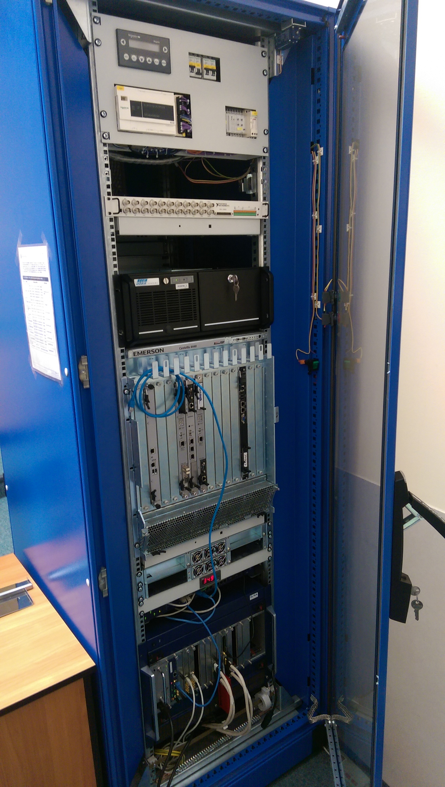 19-inch rack used for development of plasma diagnostic systems for ITER Organisation